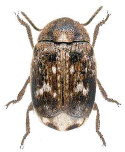 Bruchus brachialis This image or file is a work of a United States Department of Agriculture employee, taken or made as part of that person's official duties. As a work of the U.S. federal government, the image is in the public domain.